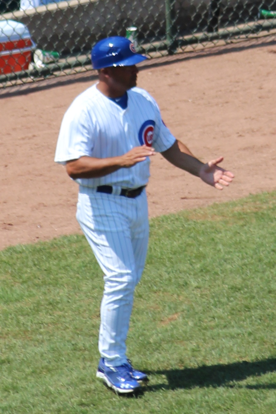 Pat Listach